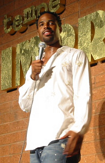 Shawn Wayans at Tempe Improv in 2004